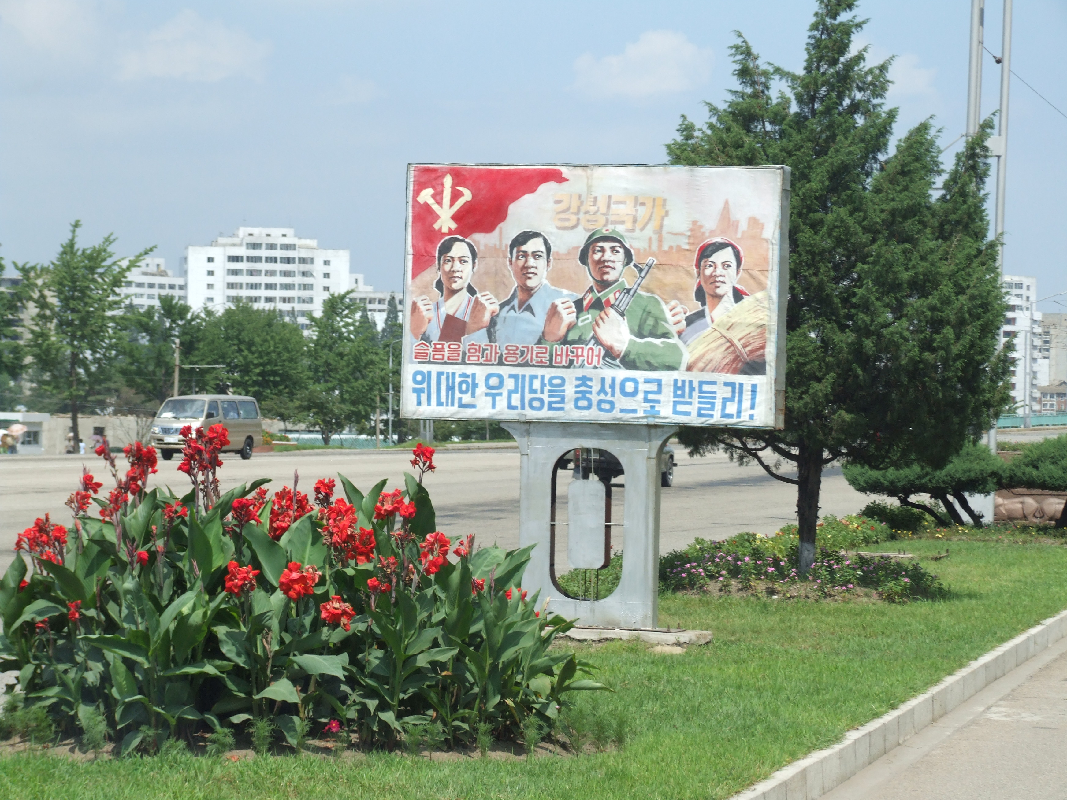 Flowers and Propaganda in Pyongyang